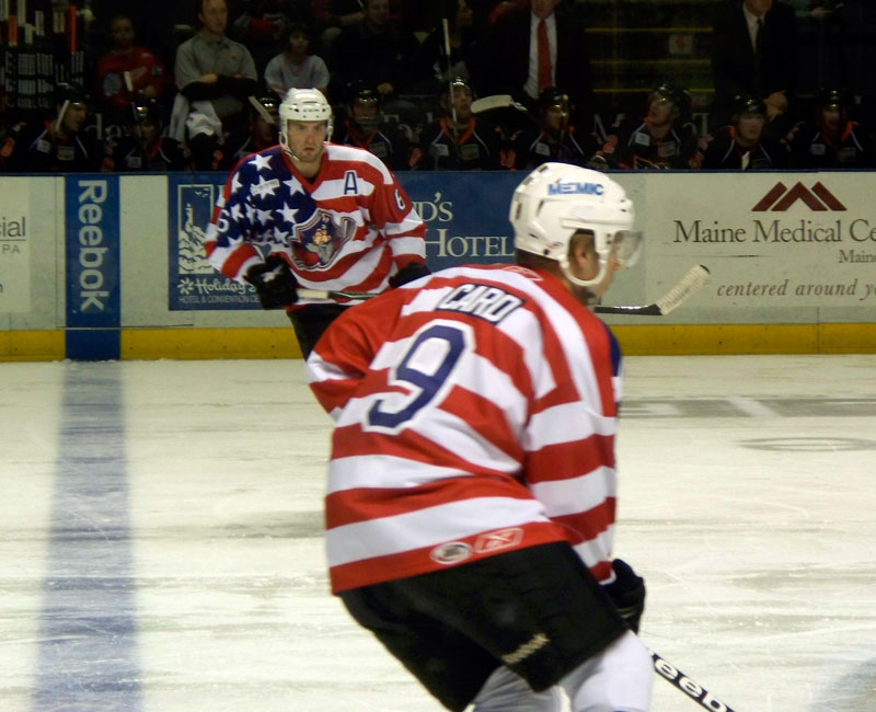 Mike Card (#9) and Mike Weber (#6) break out of their zone